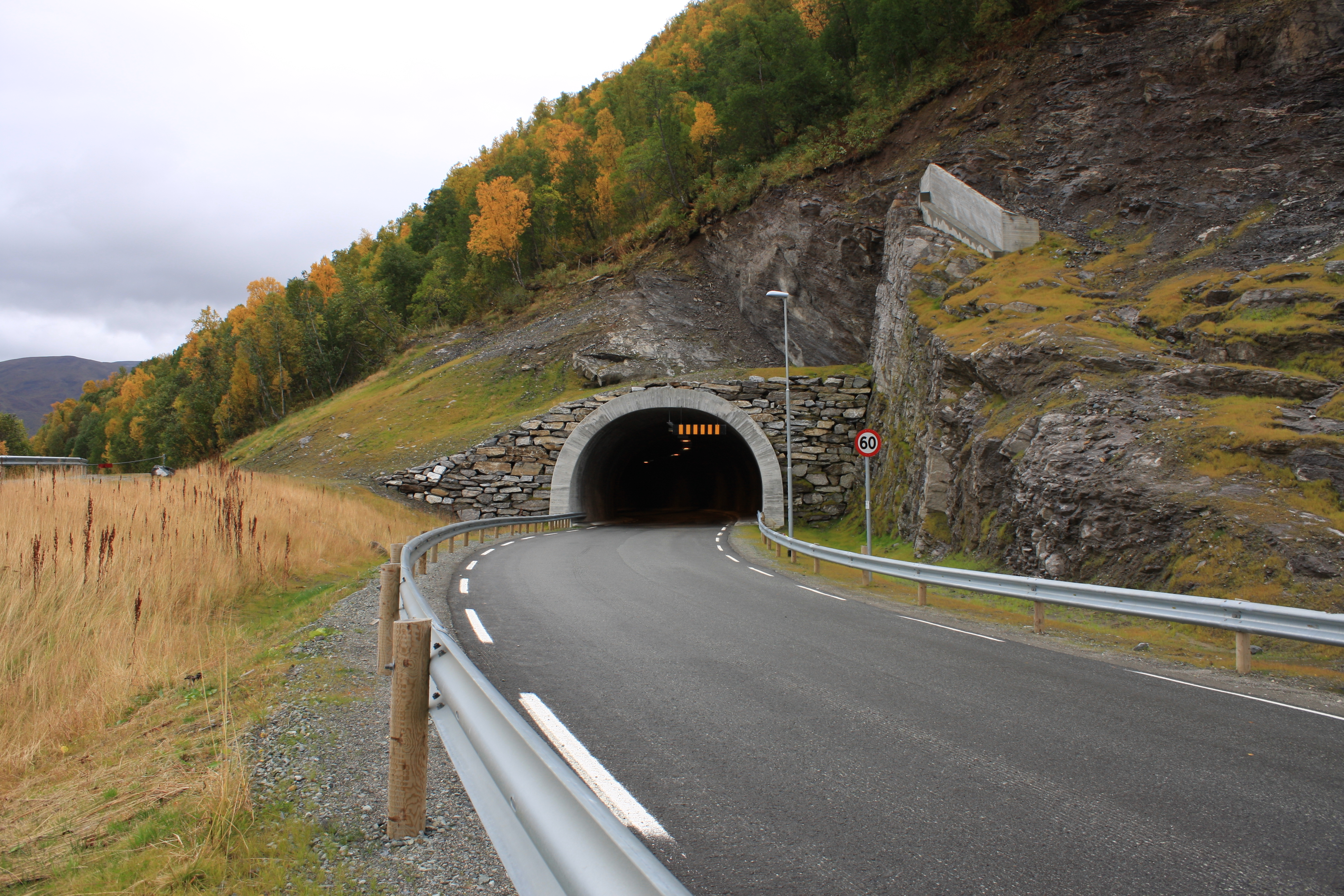 Isbergantunnelen (road tunnel) - Southwest Entrance